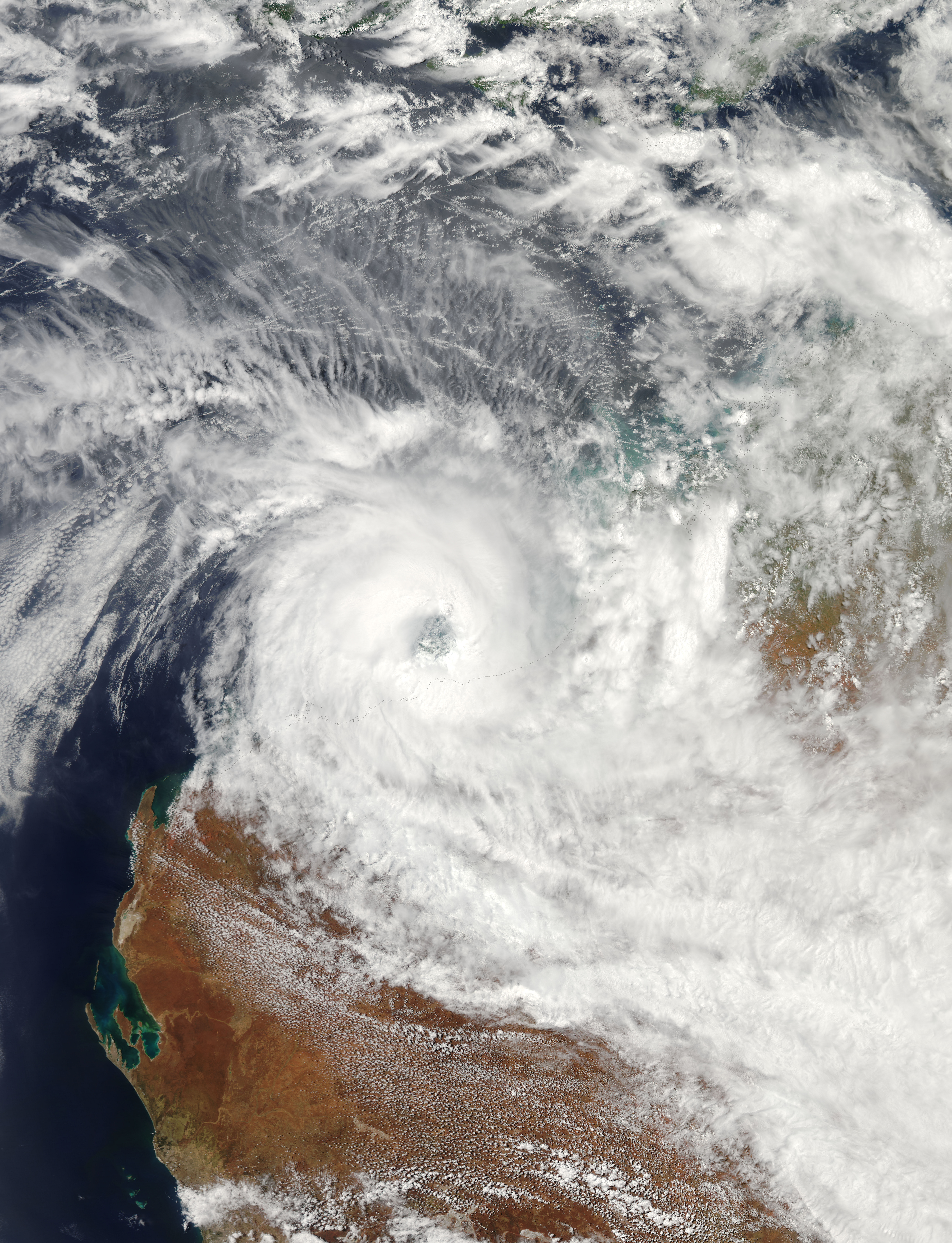 Severe Tropical Cyclone Rusty approaching West Australia on February 26, 2013.